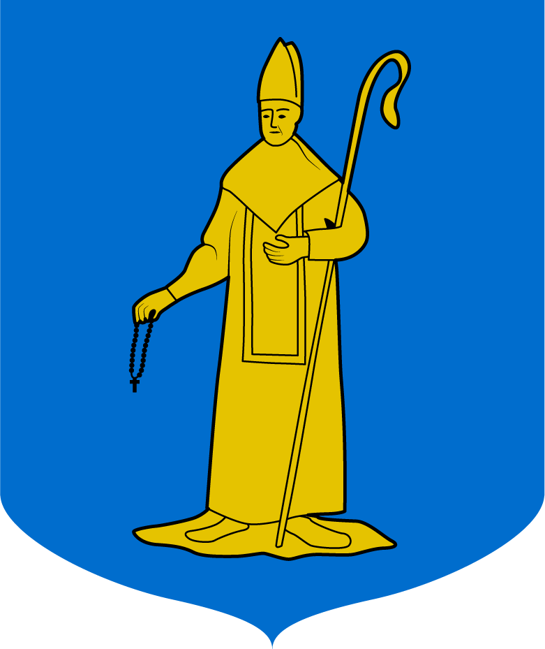 Coat of arms of the Dutch village Bakel (Gemert-Bakel) and the former municipality of Bakel en Milheze